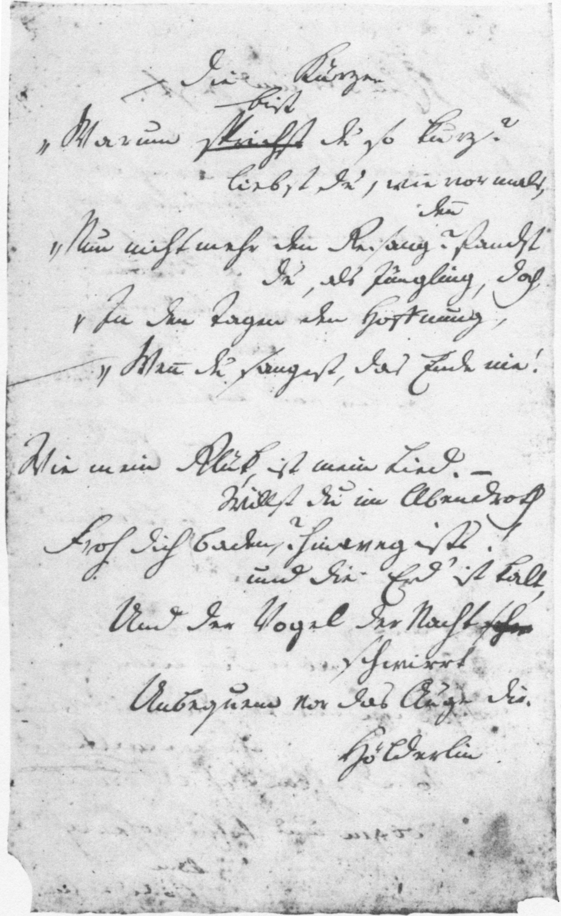 Manuscript of poem "Die Kürze" by Friedrich Hölderlin, first published in print in 1799.